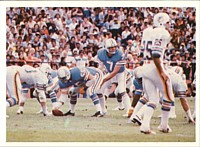 A football card from the 1986 Jeno's Pizza NFL football card stickers set of Houston Oilers quarterback Dan Pastorini calling signals during the 1978 AFC Wild Card game. The card is numbered #43 in the set. The back of the card reads: HOUSTON RETURNS TO THE PLAYOFFS Quarterback Dan Pastorini calls signals in Houston's 17-9 victory over Miami in the 1978 AFC Wild Card Game. It was the Oiler's first appearance in the playoffs since 1967 and first playoff win since 1961. Pastorini, taking the ball from center Carl Mauck, completed 20 for 29 attempts against the Dolphins for 306 yards.